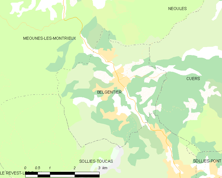 Map of French municipality Belgentier